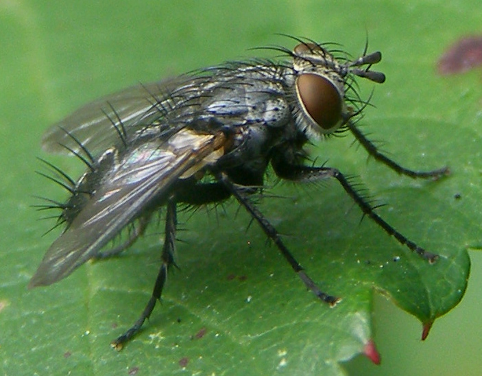 Tachinid fly Voria ruralis (Diptera: Tachinidae). ID confirmed by Chris Raper here